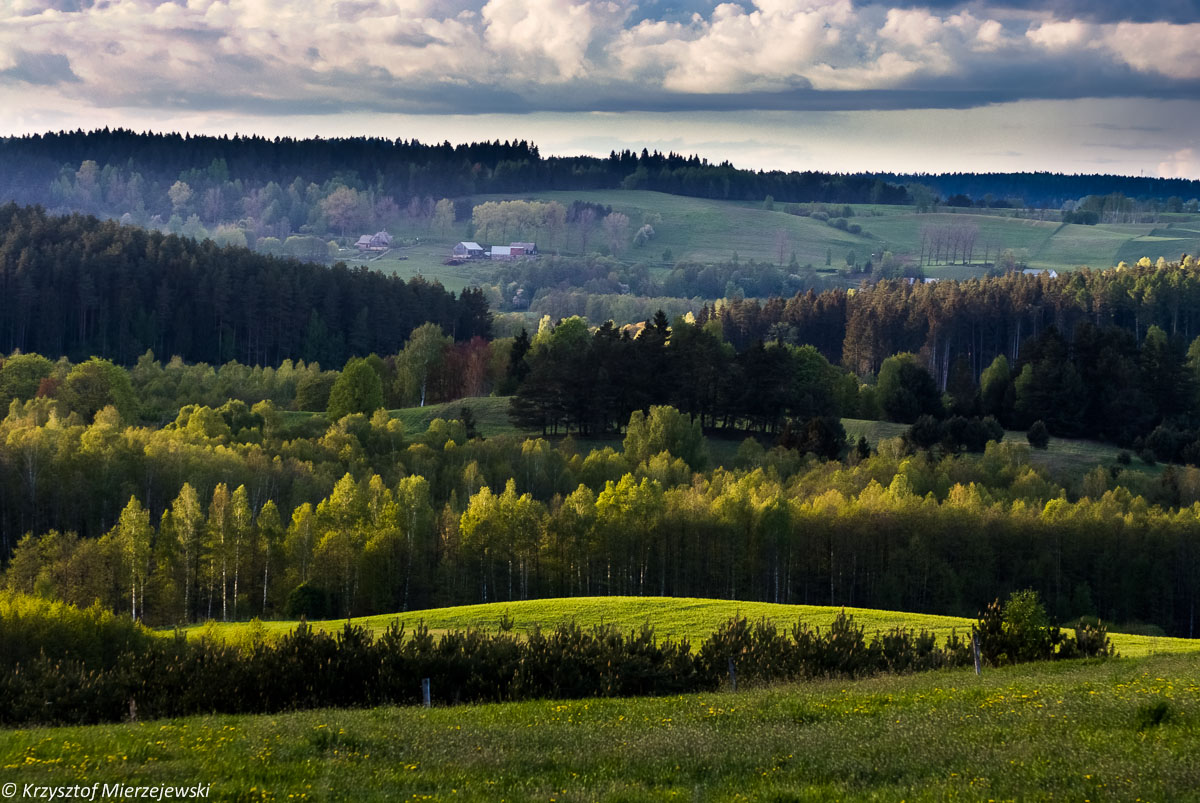 Suwalski Park Krajobrazowy. Widok w stronę Szurpił.